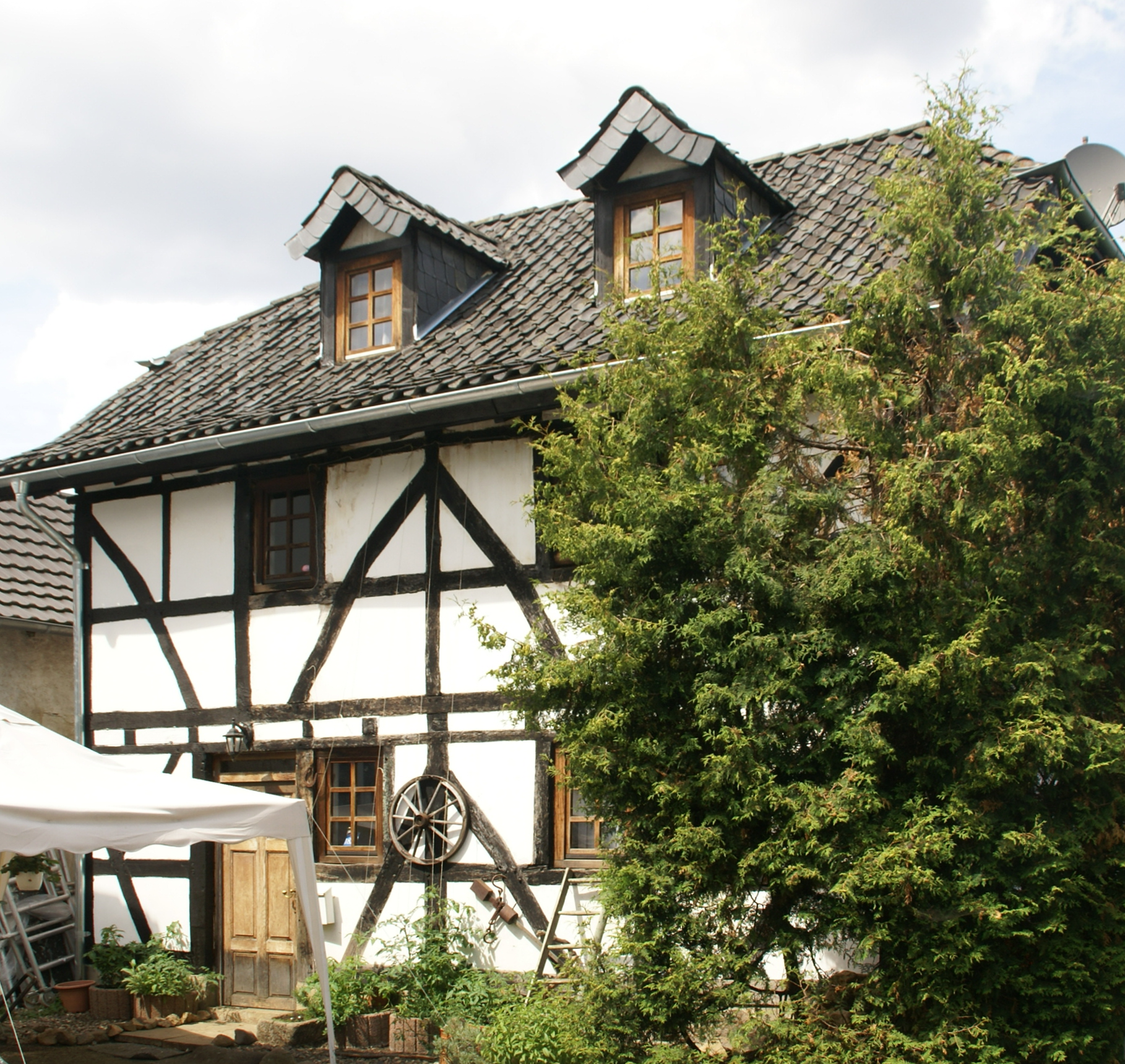 Half-timbered house in Niederscheuren, Niederscheuren 18a